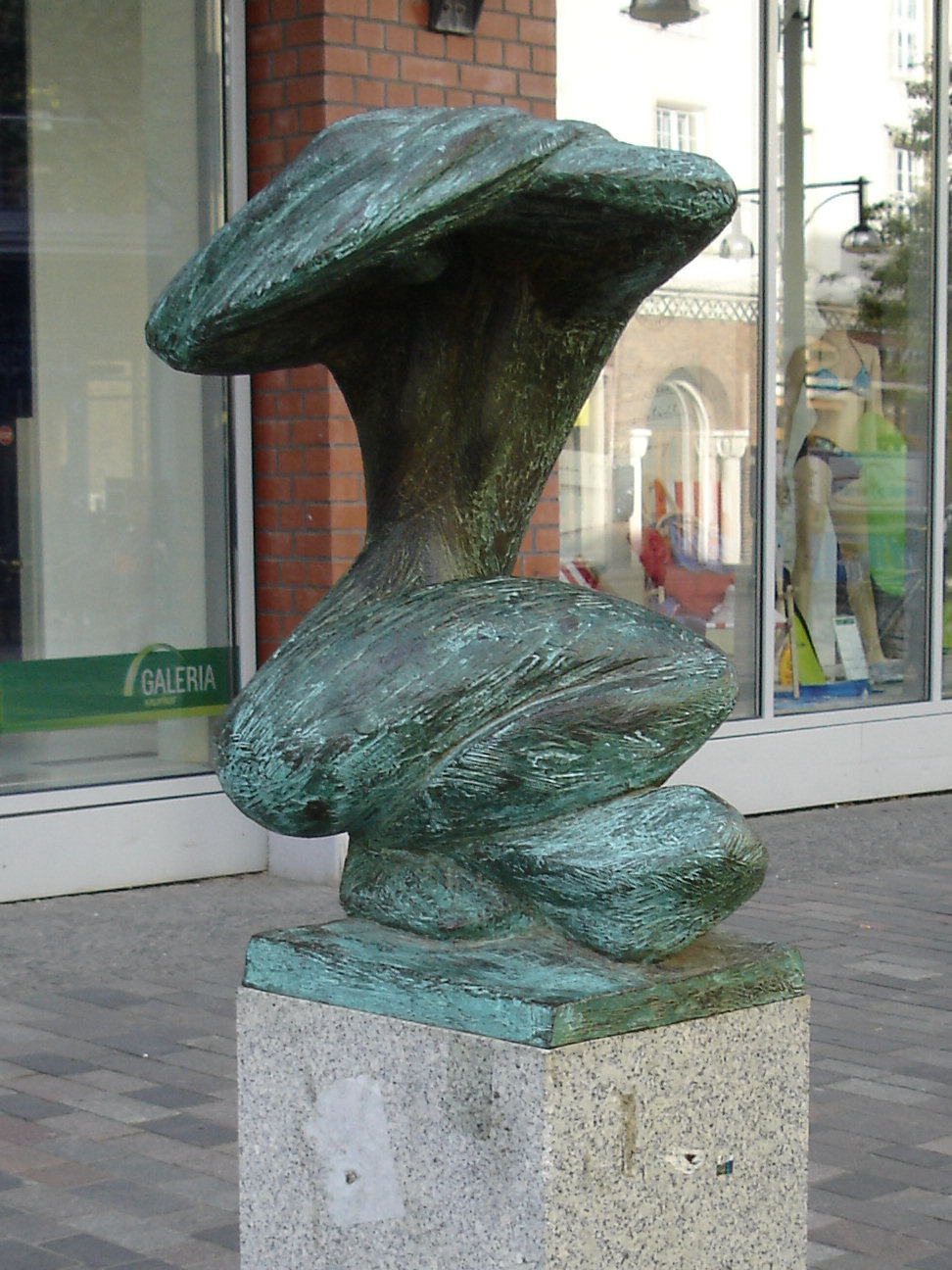 Bronzefigur "Die Welle" von Dorothea Maroske in Rostock / Sculpture "The Wave" of Dorothea Maroske in Rostock